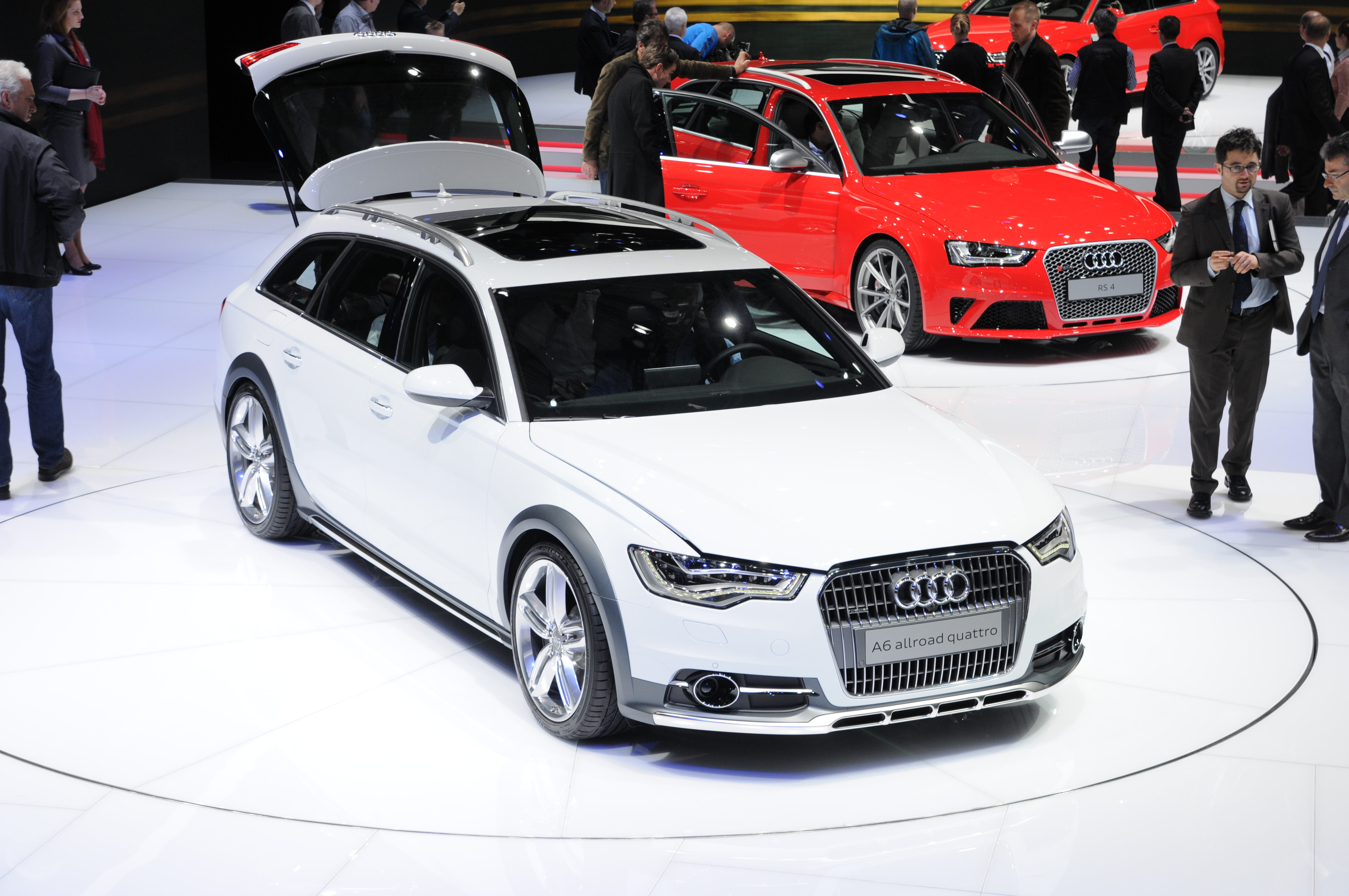 Geneva Motor Show 2012 (photos taken on the second press day)